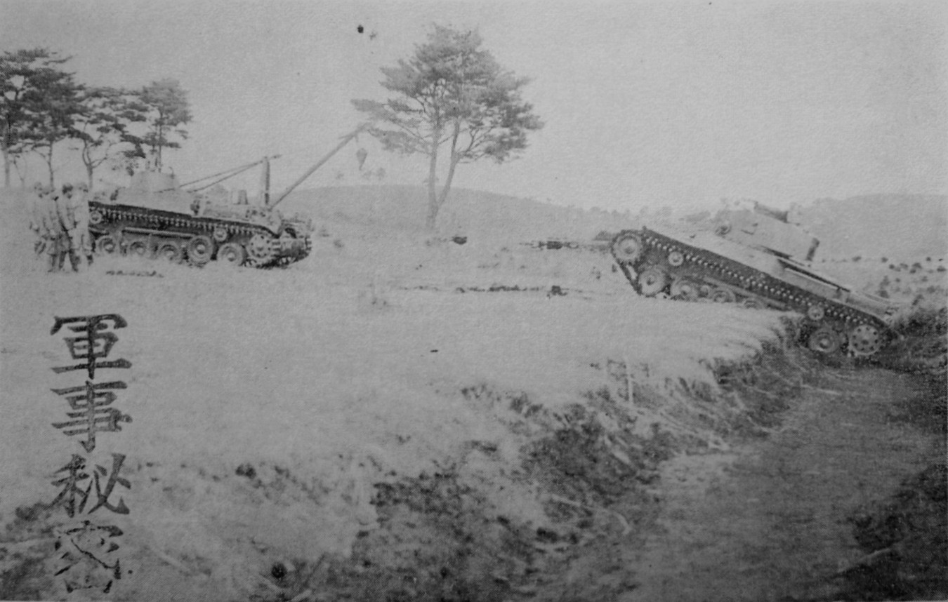 Armoured Recovery Vehicle Type 97 Se-Ri and Experimental Type 98 medium tank Chi-Ho, with its prototype turret, being pulled from Tank Test Bed